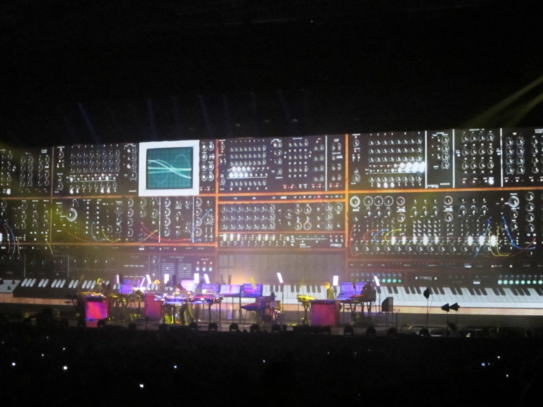 Jean Michel Jarre Tour 2010